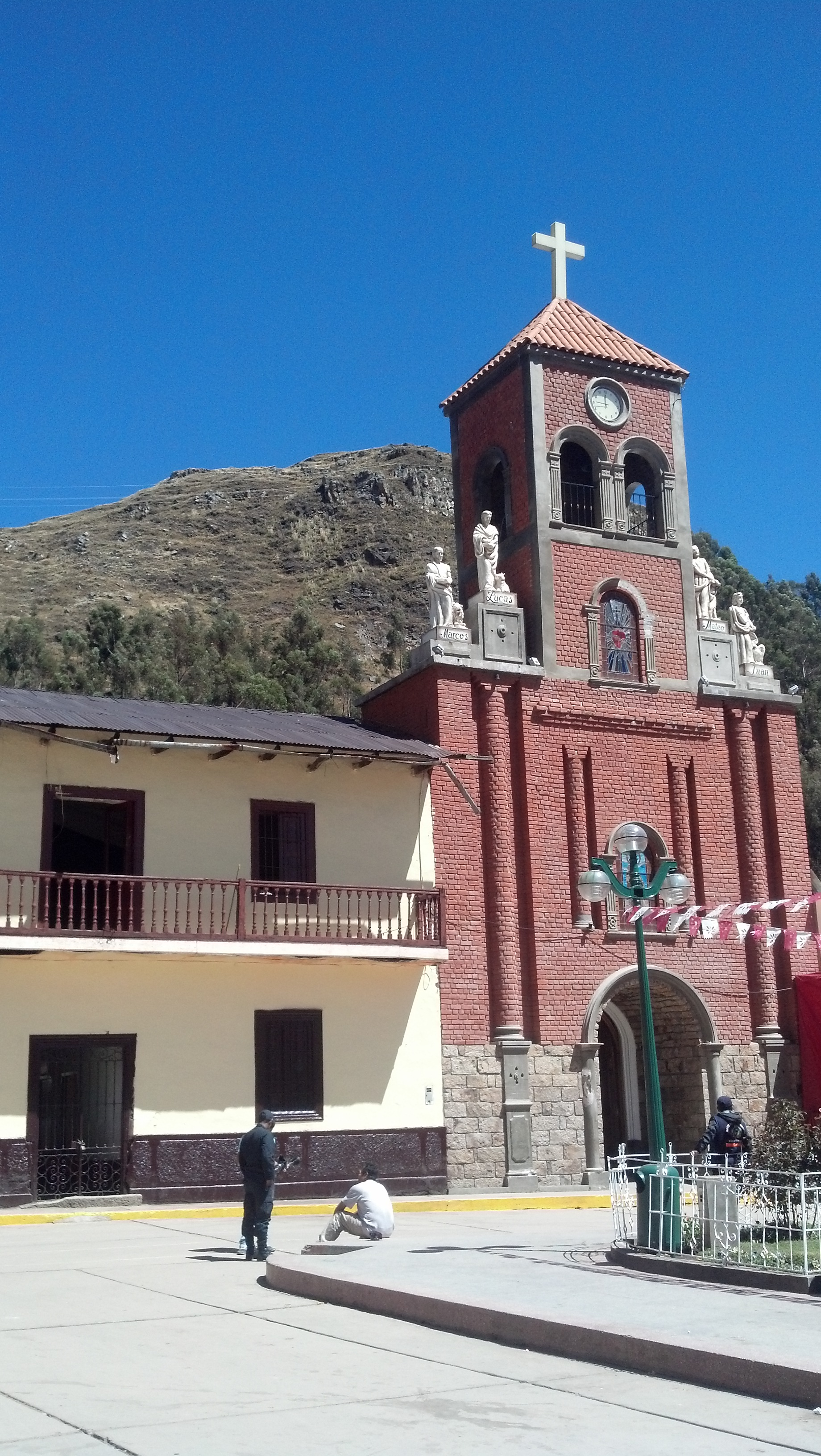 Older City Hall and Main Catholic Church of Huallanca